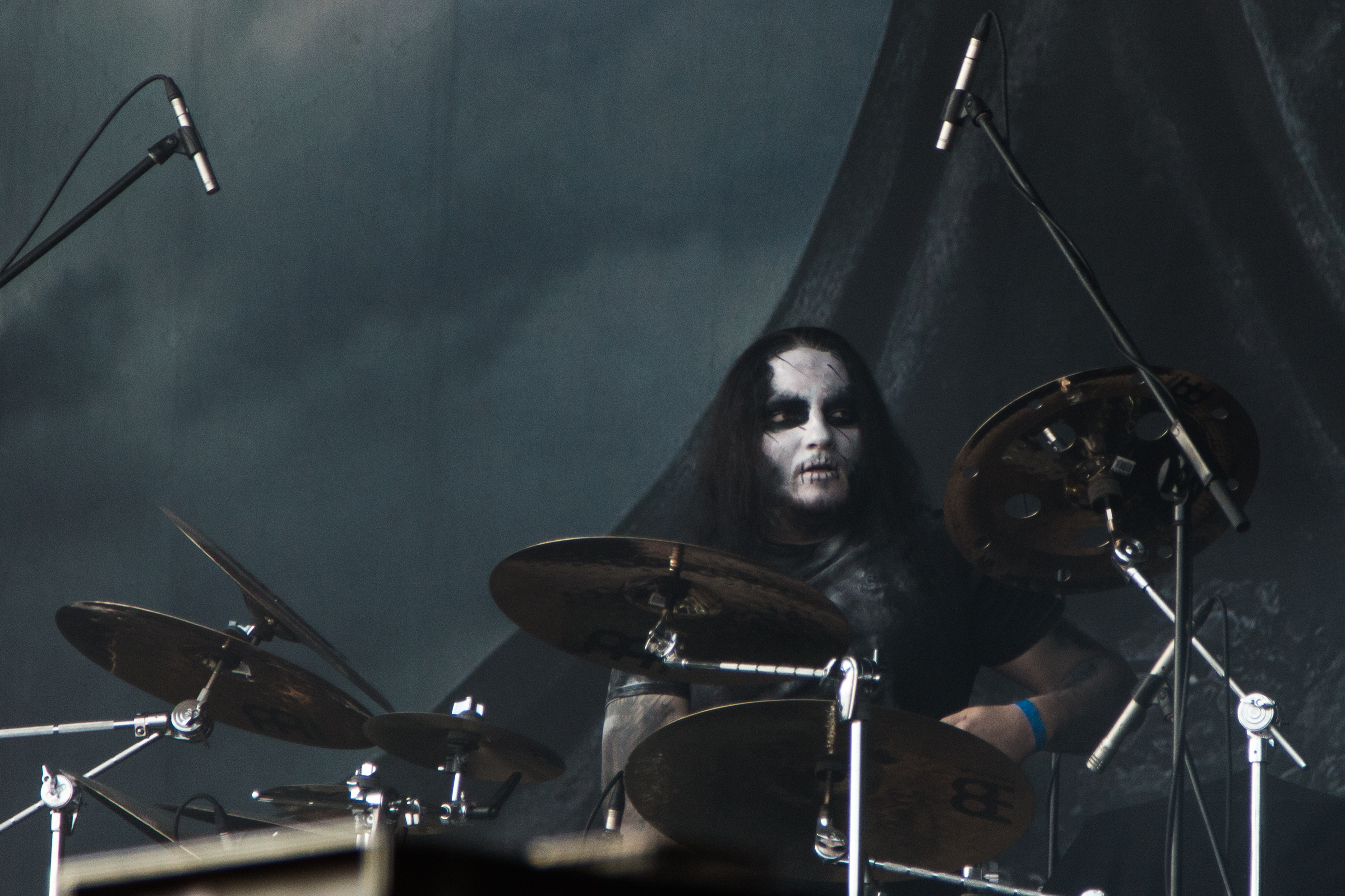 Dariusz Brzozowski from Dimmu Borgir at the See-Rock Festival 2014